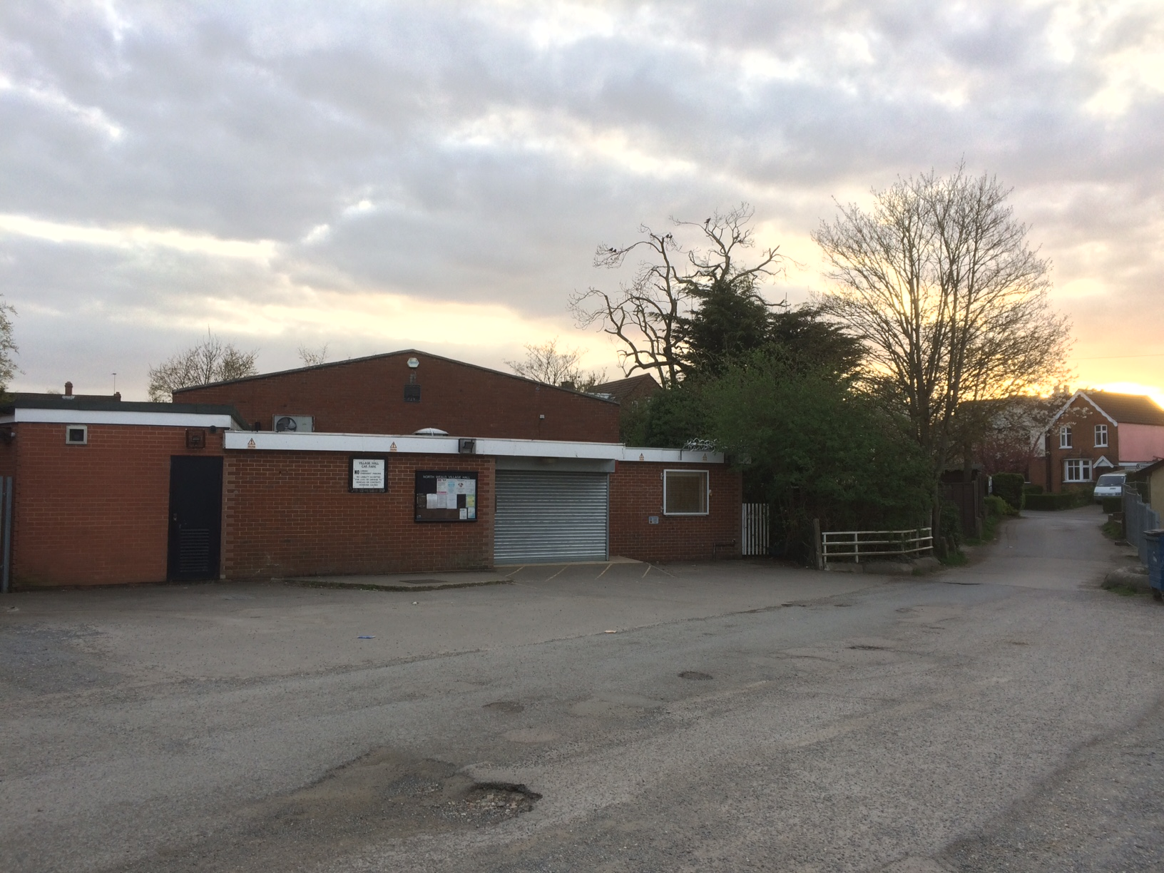 Built in 1928 the village hall hosts many events annually.